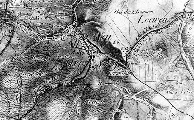 old map of Geising.